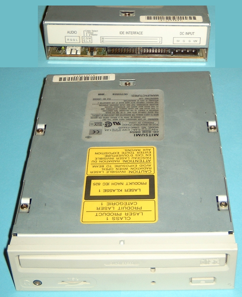 IDE CD-ROM drive Mitsumi FX400D